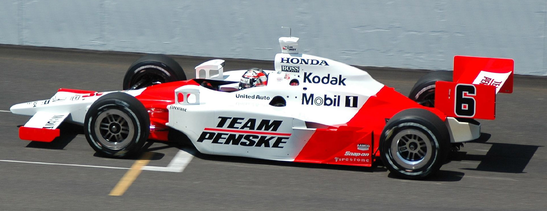 Sam Hornish, Jr. practicing for the en:2007 Indianapolis 500